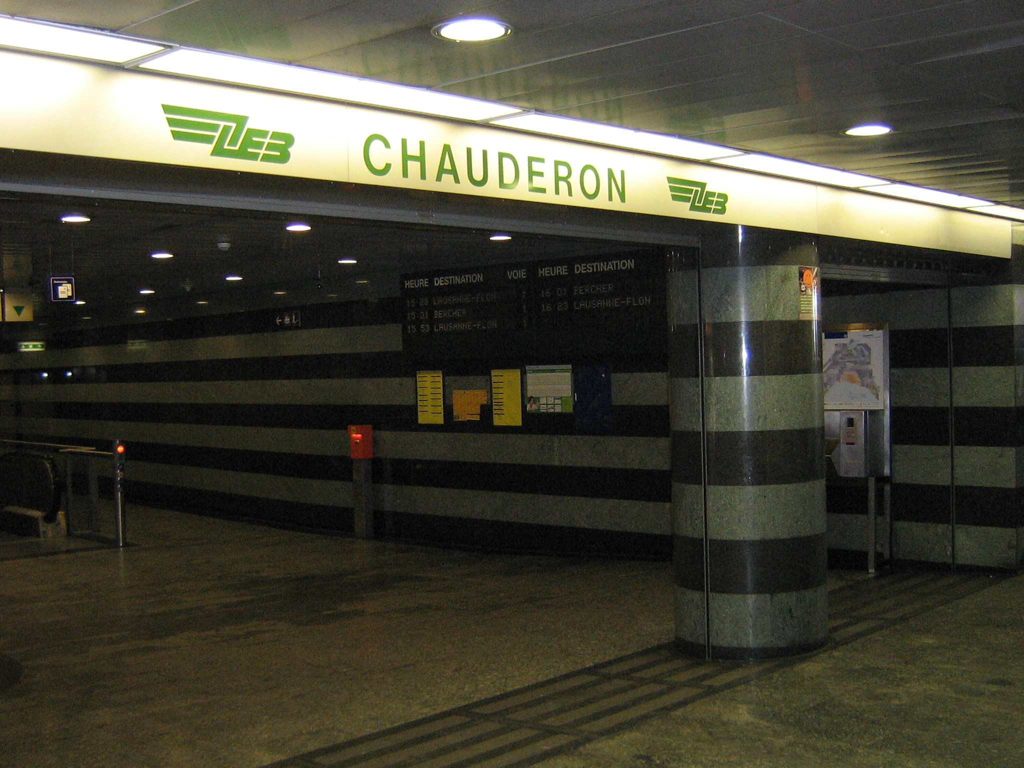 View of the entrance of the LEB railway station of Lausanne-Chauderon.